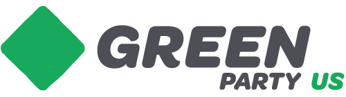 The re-branded logo of the Green Party of the United States